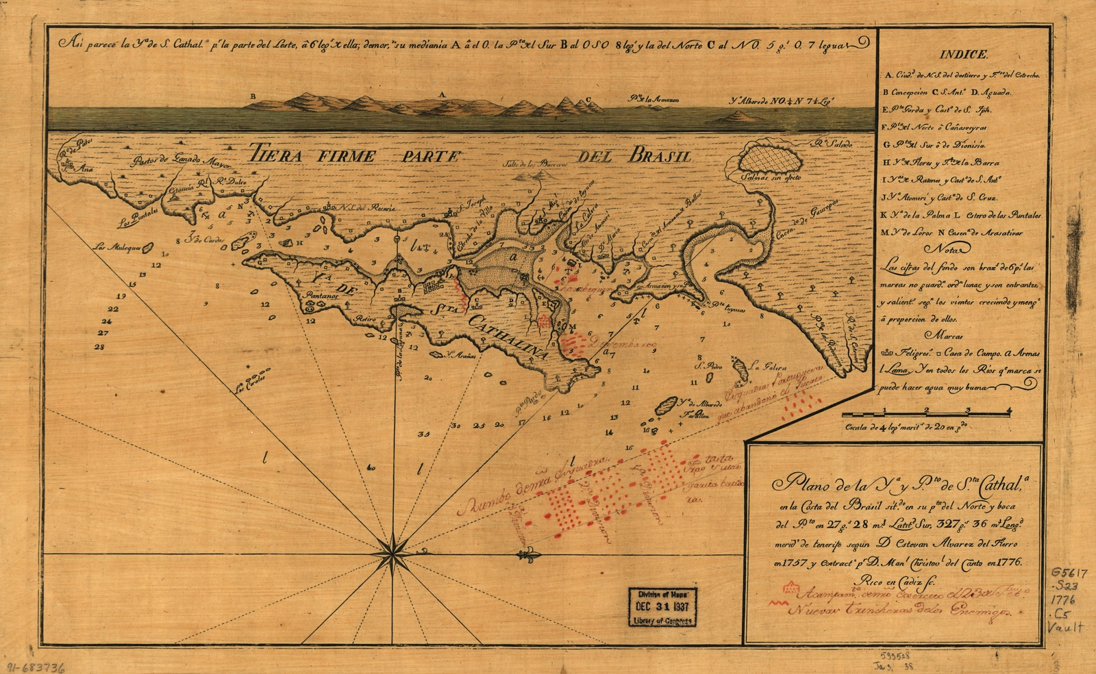 Map of Santa Catarina Island published in 1776, by Manl Christovl. del Canto. Plano de la Ya. y Pto. de Sta. Cathala. en la costa del Brasil sitdo. en su pta. del norte y boca del pto. en 27 gs. 28 ms. latitd. sur, 327 gs. 36 ms. longd., merido. de Tenerife / según D. Estevan Alvarez del Fierro en 1757 y extracto. pr. D. Manl. Christovl. del Canto en 1776 ; Rico en Cádiz sc.